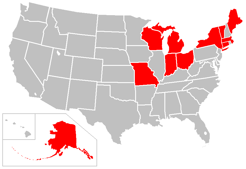 US states with reported cryoseisms. Also known as a frost quake, they may be caused by a sudden cracking action in frozen soil or rock saturated with water or ice. As water seeps down into the rock, it freezes and expands, putting stress on surrounding rock. This builds up until it is relieved explosively in a cryoseism.